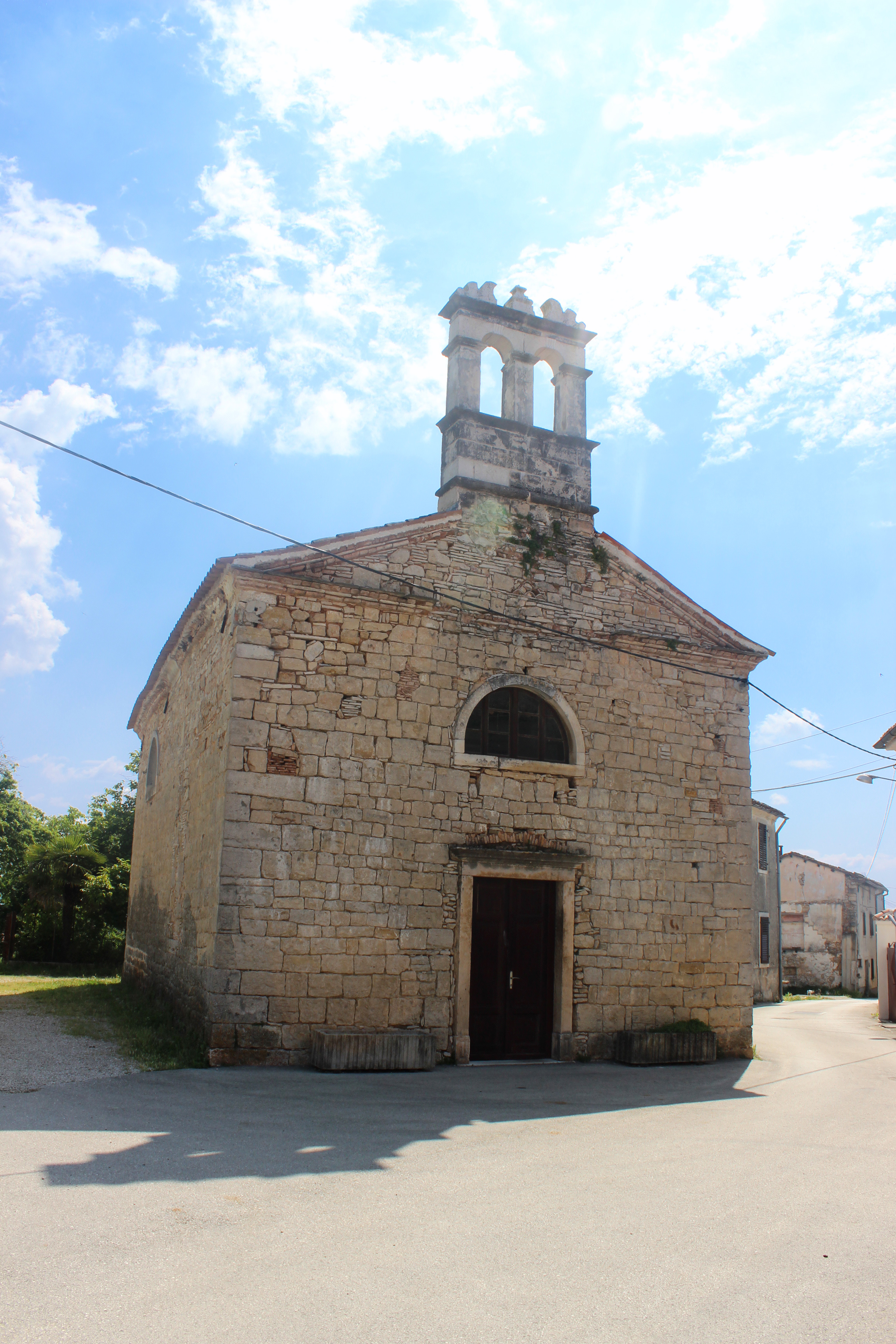 The Church of Saint Barnabas (Crkva Sveti Barnabe), in Vižinada, Croatia